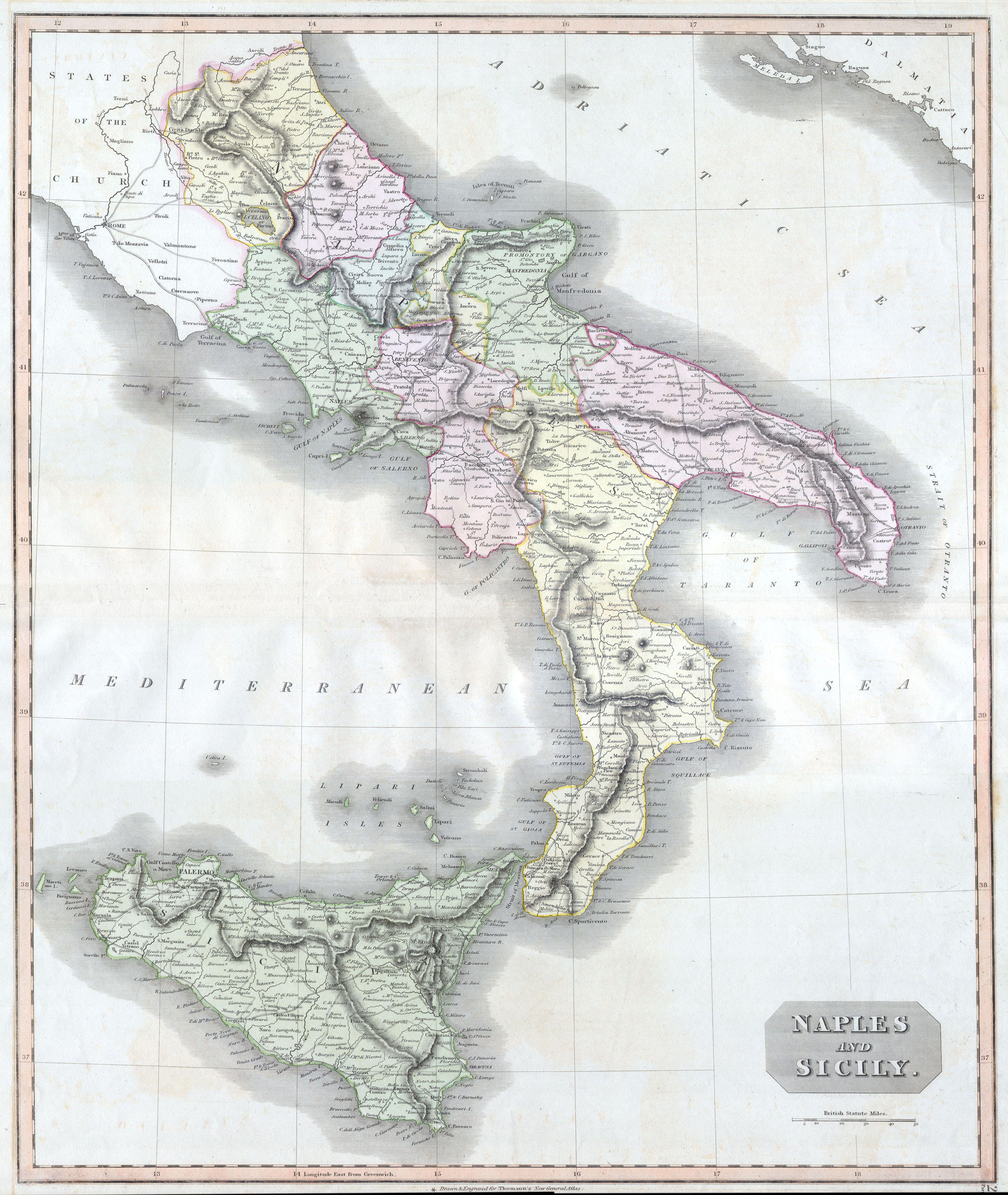 This fascinating hand colored 1814 map by Edinburgh cartographer John Thomson depicts southern Italy ( Naples and Sicily). Covers from Rome south to the island of Sicily. Extraordinarily details with notations on both physical and political features. This map’s magnificent size, beautiful color, and high detail make this one of the finest maps of this region to appear in the early 19th century.